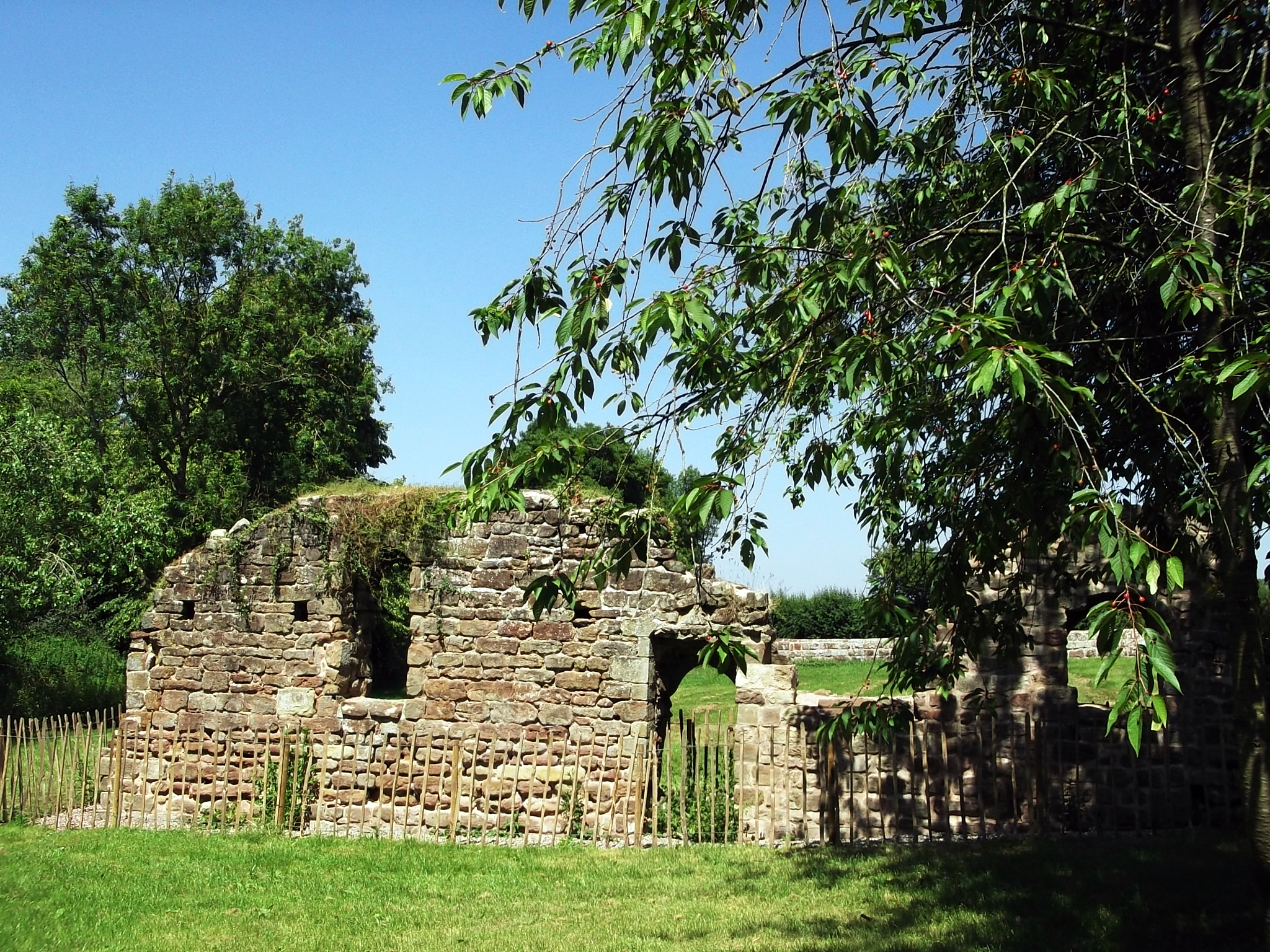 Remains of former college buildings. St Bartholomew's Church, Tong, Shropshire.